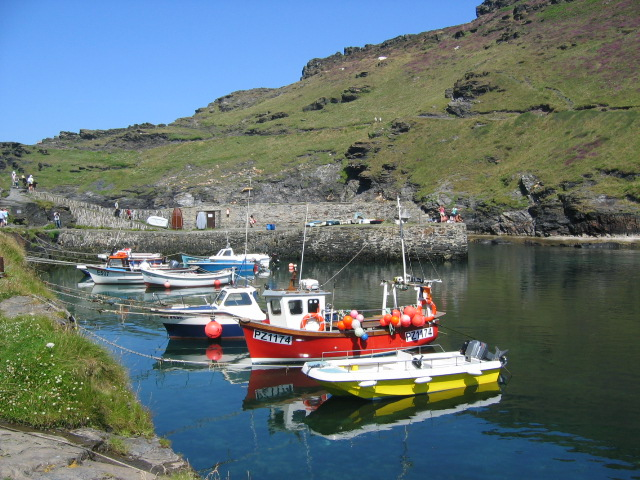 Harbour scene, Boscastle